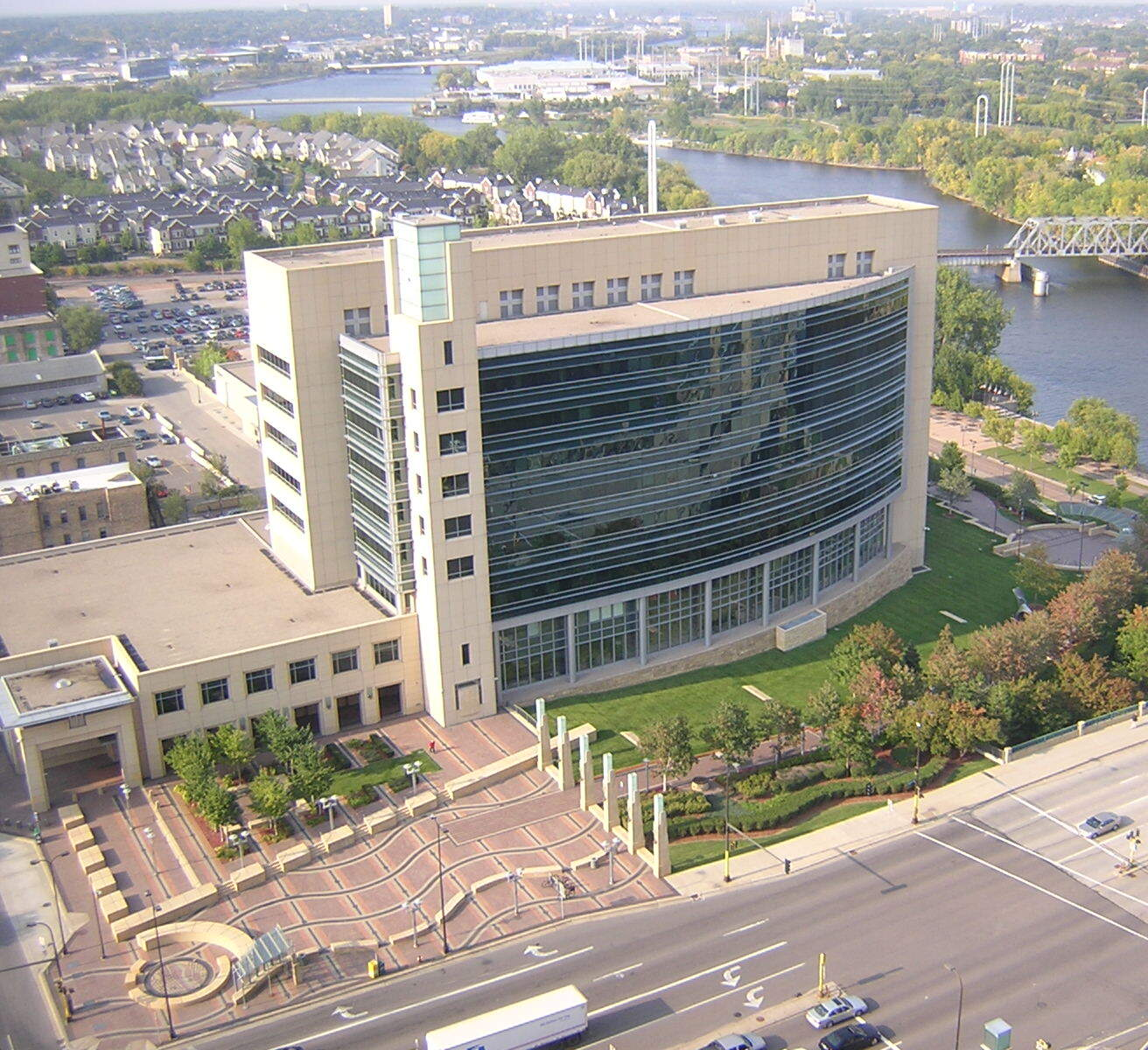 Federal Reserve Bank of Minneapolis on the Mississippi River at Minneapolis, Minnesota, USA